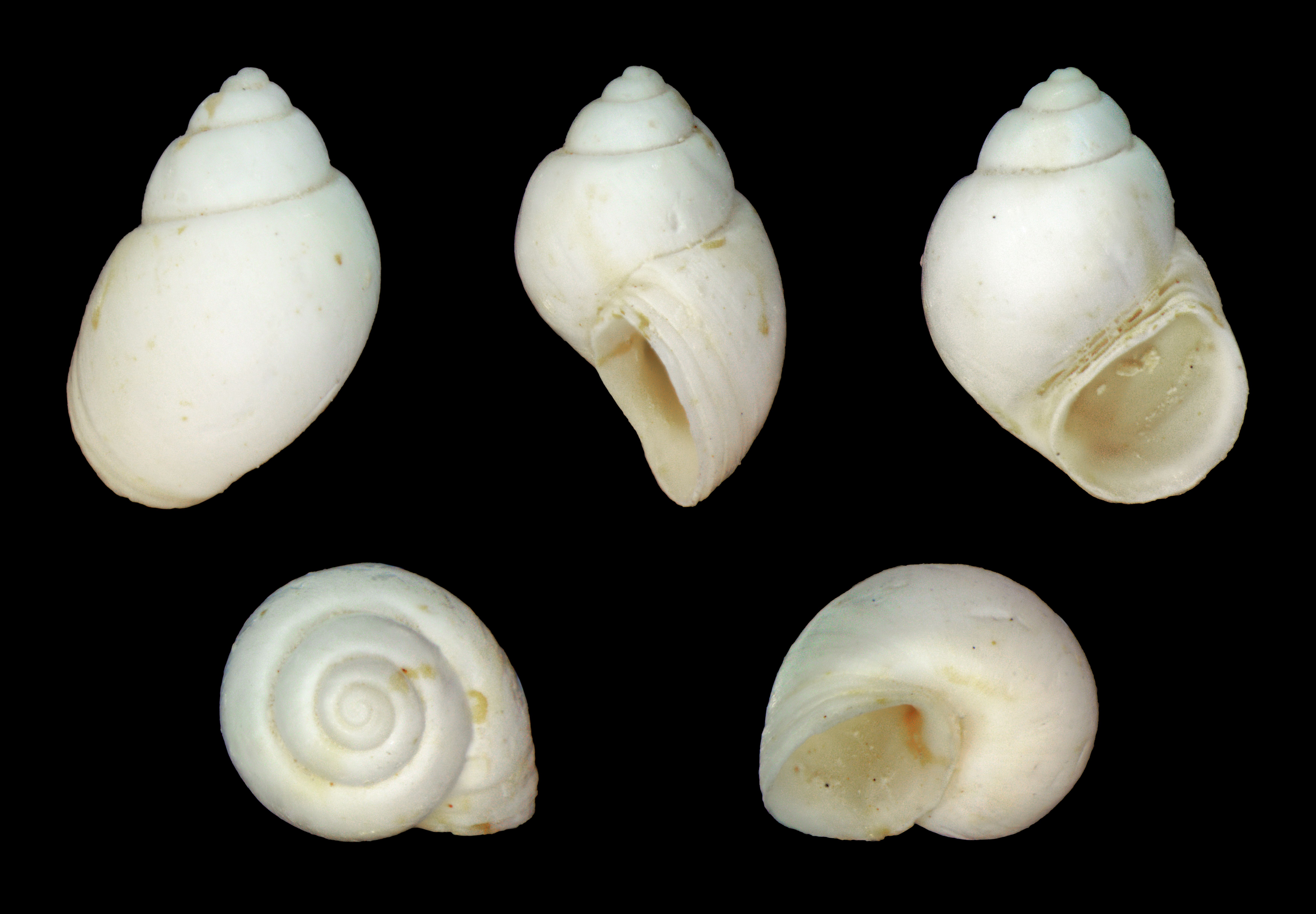 Length 0.35 cm; Miocene, Serravallian, Upper Trochiformis-Layer; Pharion pit, Steinheim crater, Germany; Shell of own collection, therefore not geocoded. Dorsal, lateral (right side), ventral, back, and front view.